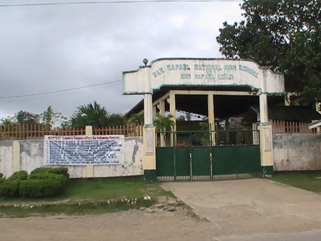 The exterior gate of San Rafael National High School, San Rafael, Iloilo, Philippines.